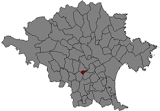 Location of Santa Llogaia d'Àlguema in Alt Empordà